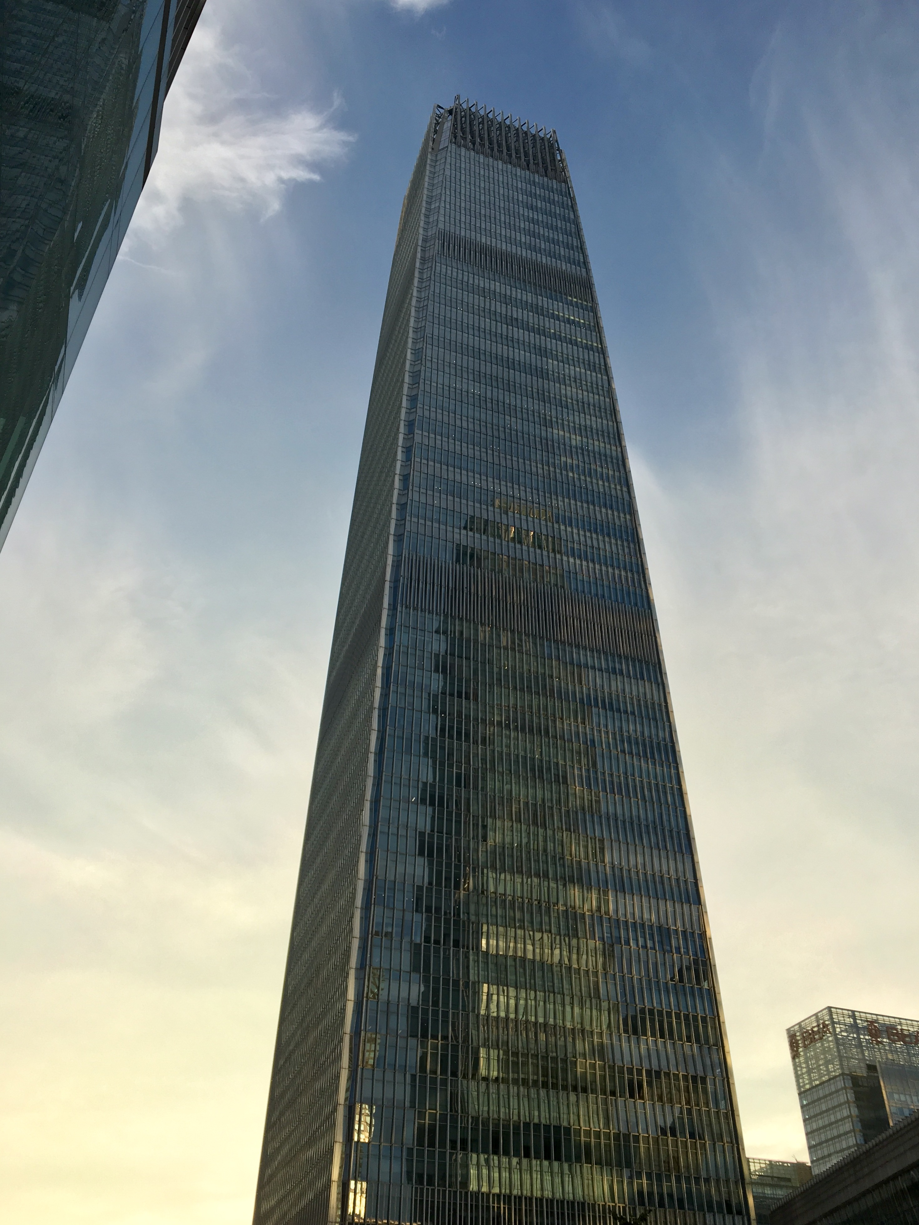 China World Tower A, Beijing